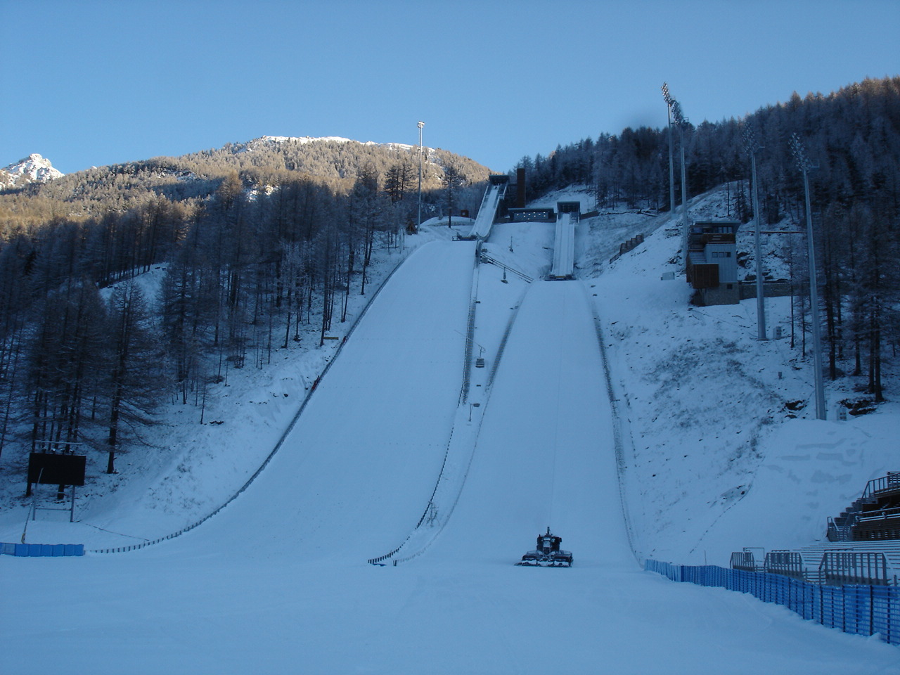 Ski jump of Pragelato (Italy)